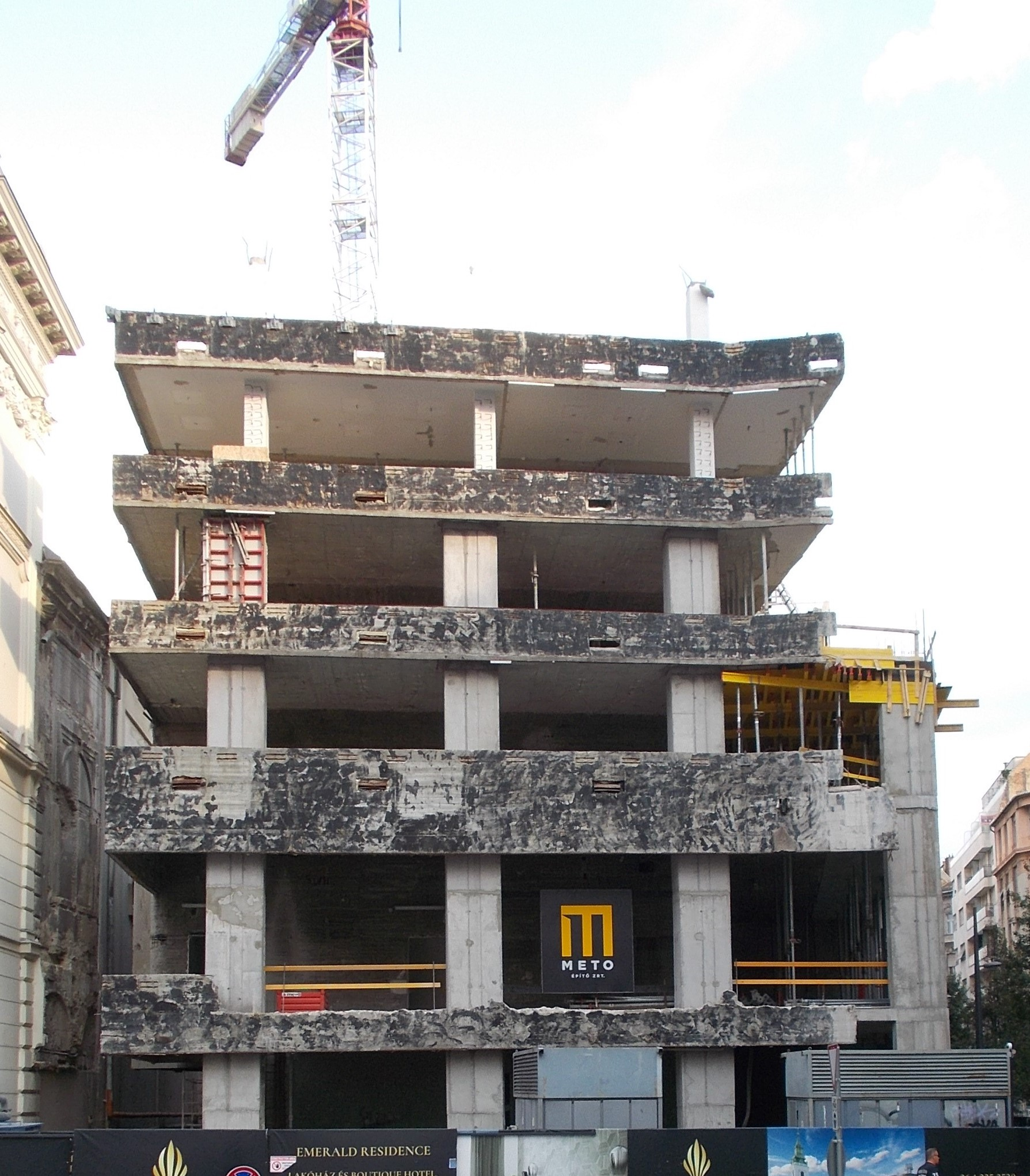 Inner City Telephone Exchange. Planned in 1971 by Lajos Jeney; built in between 1975 and 1976. Remodelling in progress. Luxury apartmants, hotel and shops will be created. - Szervita square, Inner City neighborhood, District V of Budapest.